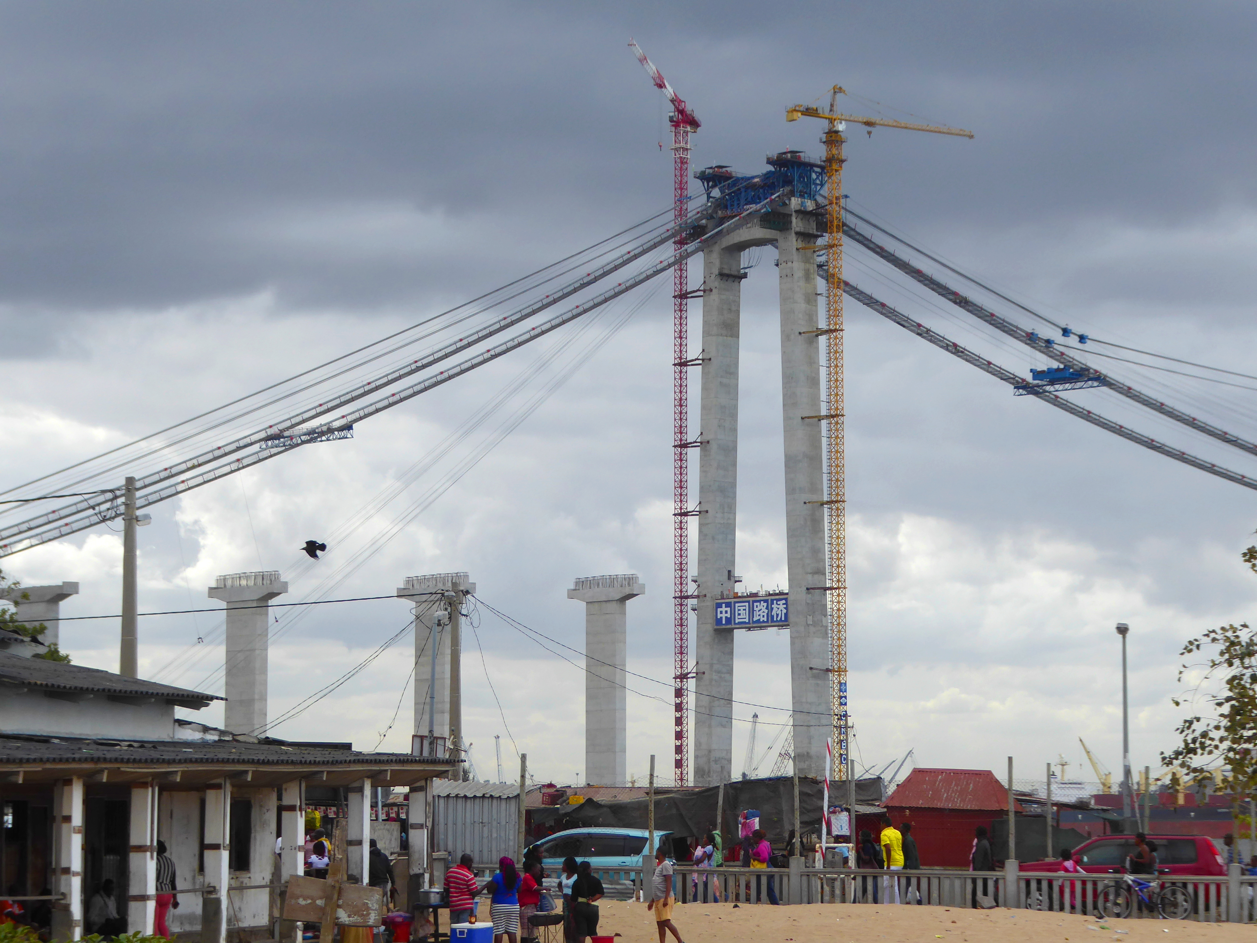 Port of Katembe with Maputo–Katembe bridge in the background; Katembe, Maputo, Mozambique